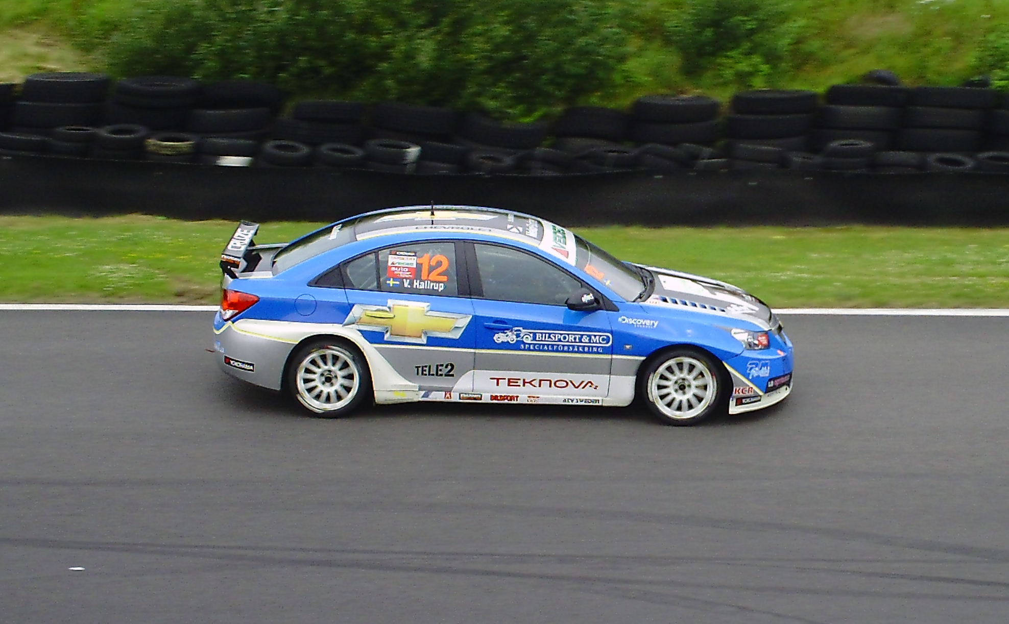 Viktor Hallrup driving his Chevrolet Cruze LT for Chevrolet Motorsport Sweden (NIKA Racing) at Falkenbergs Motorbana, during the fifth round of the 2011 Scandinavian Touring Car Championship (STCC) season.